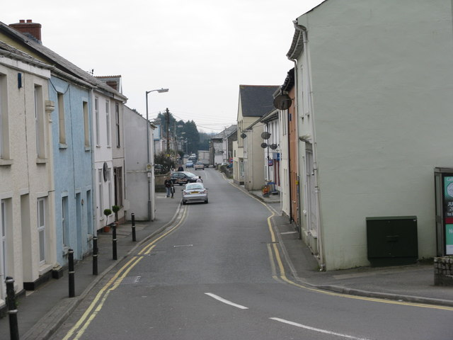 Station Road, St. Blazey, Cornwall In the 'Cornish Arms' nearby is a photograph taken from the same viewpoint many years previously